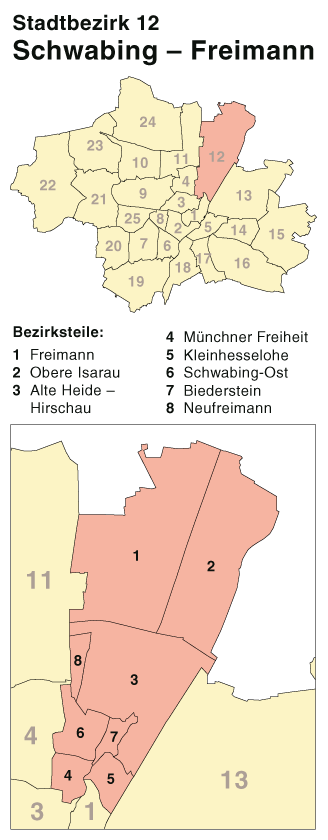 Boroughs of Munich map series